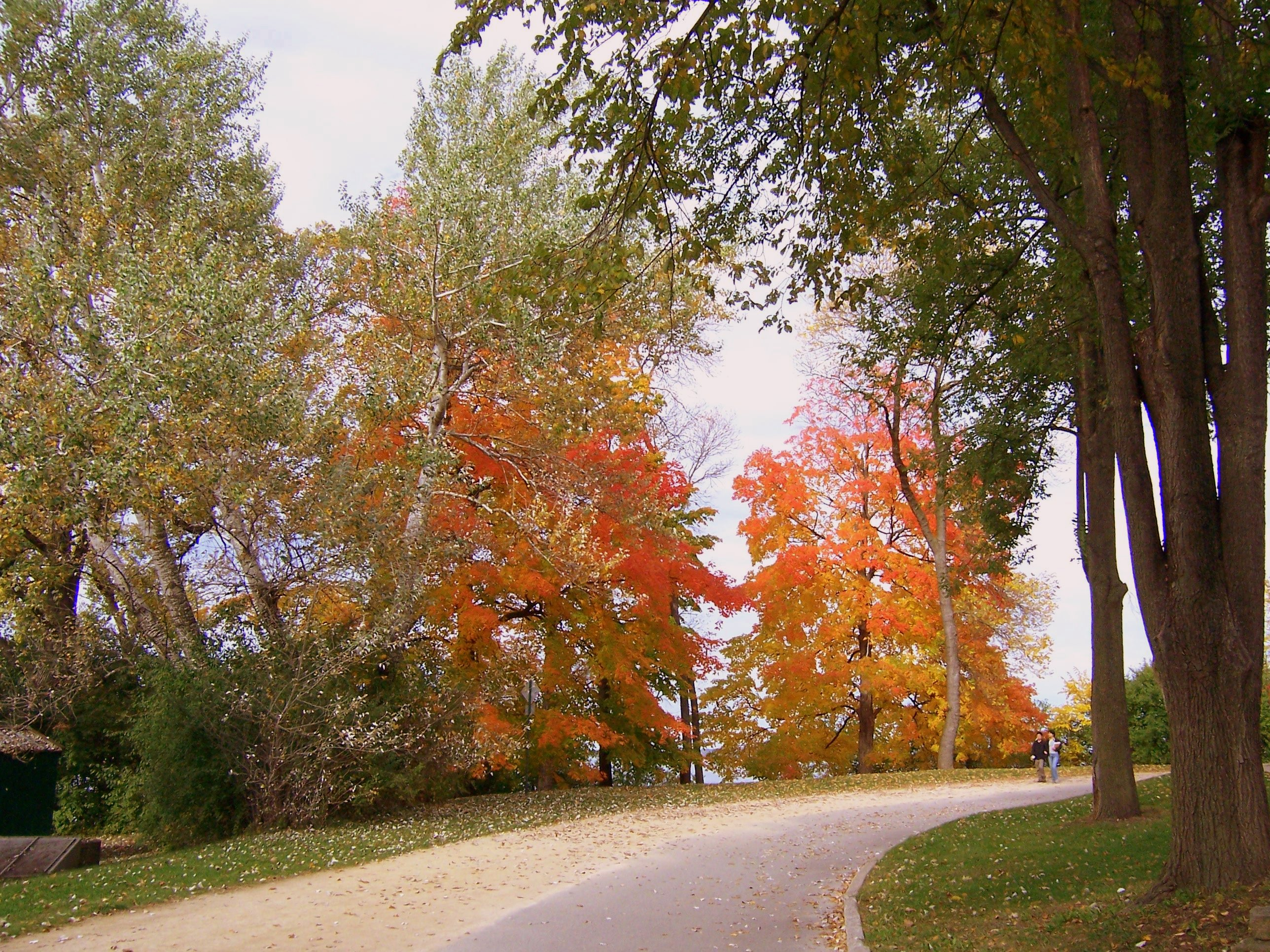 This is a picture of Lakeshore path as it leads into the Willow Creek Woods, located in the UW-Madison Lakeshore Nature Preserve.